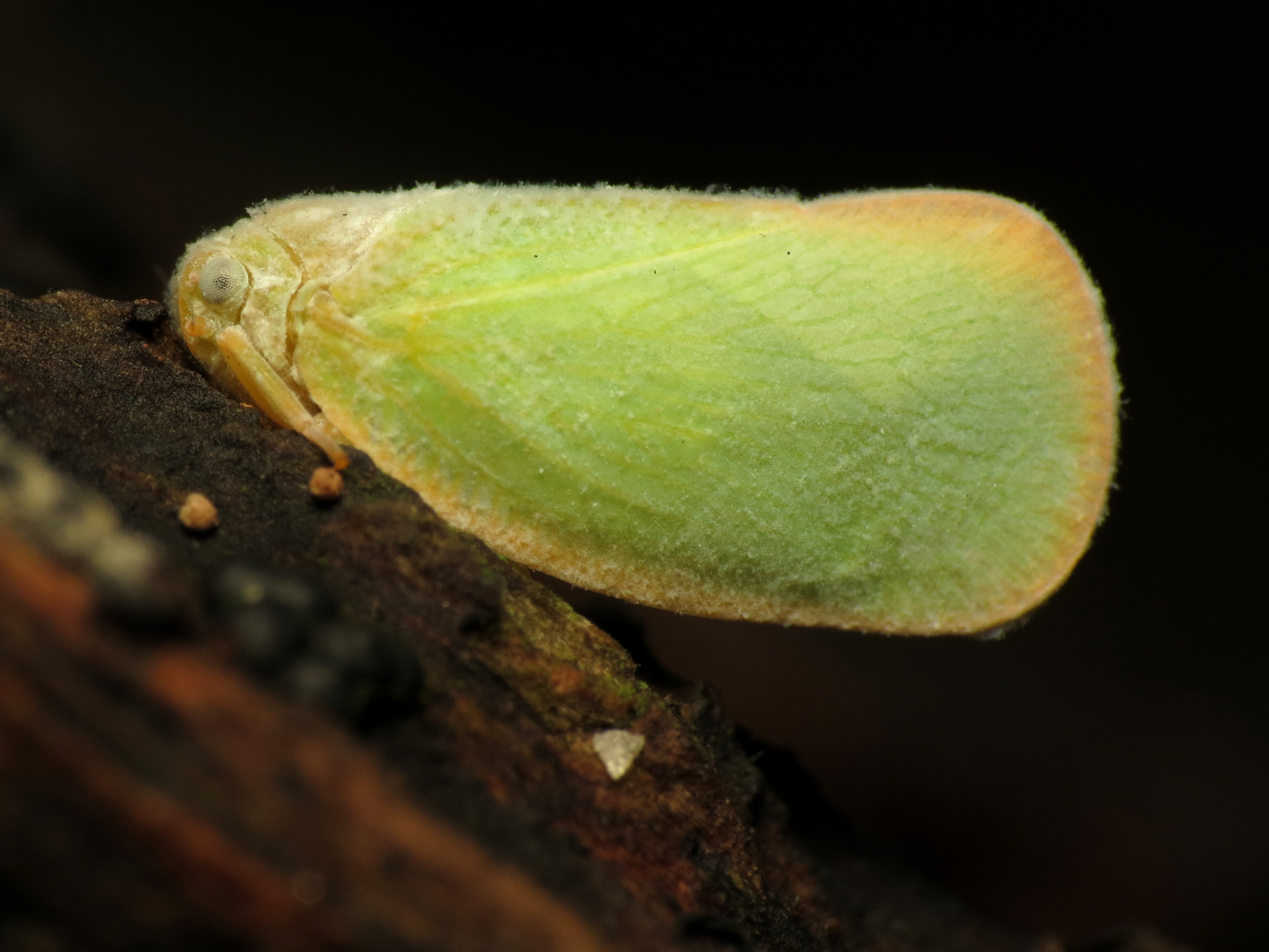 Ormenoides venusta. Rock Creek Park, Washington, DC, USA.